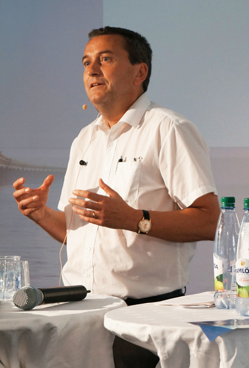 Stefan Bengtsson (born 1961), vice chancellor of Malmö University since 2011.